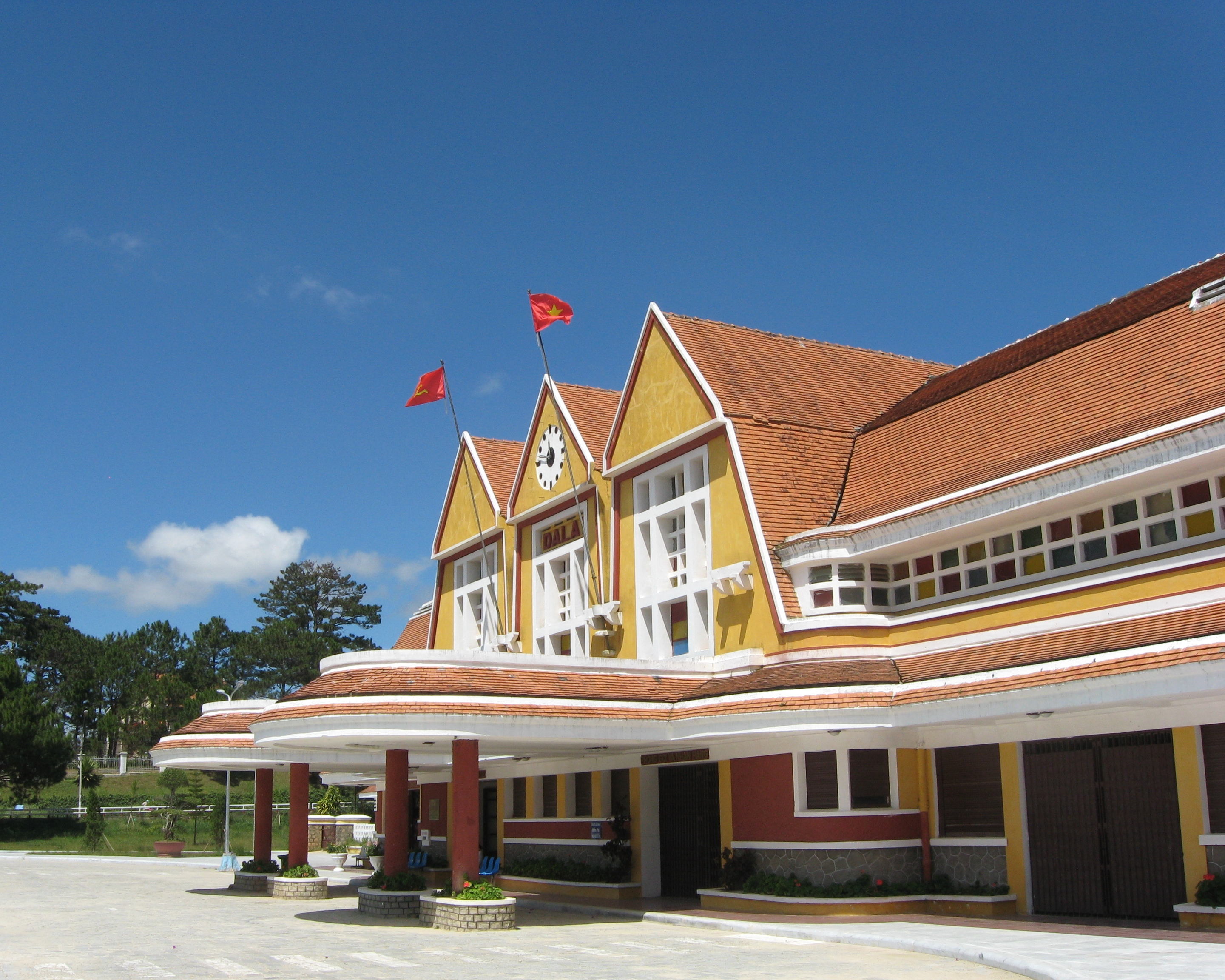 Da Lat train station